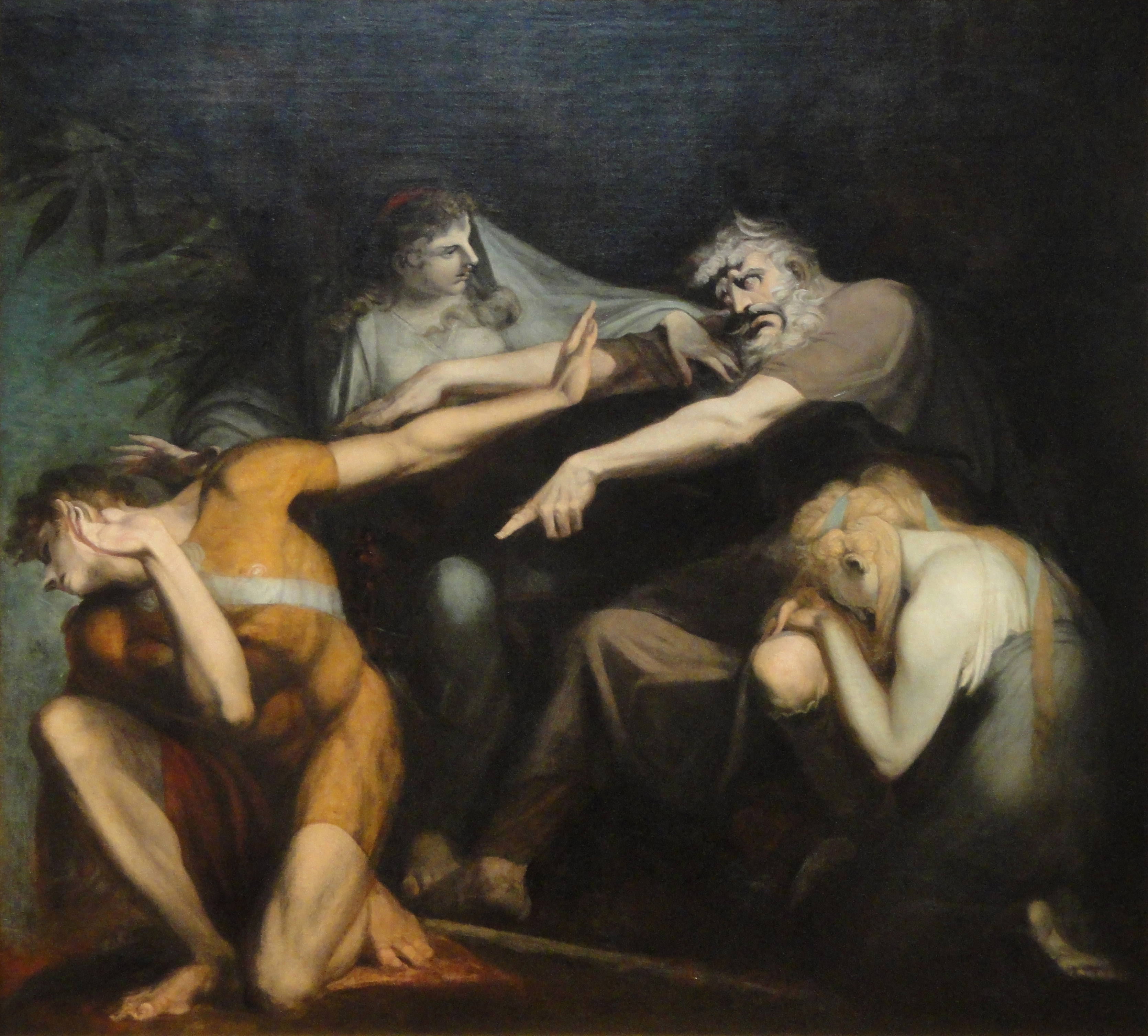 Oedipus Cursing His Son, Polynices, by Henry Fuseli, 1786, oil on canvas - National Gallery of Art, Washington, DC, USA. This painting is in the public domain because the artist died more than 70 years ago.